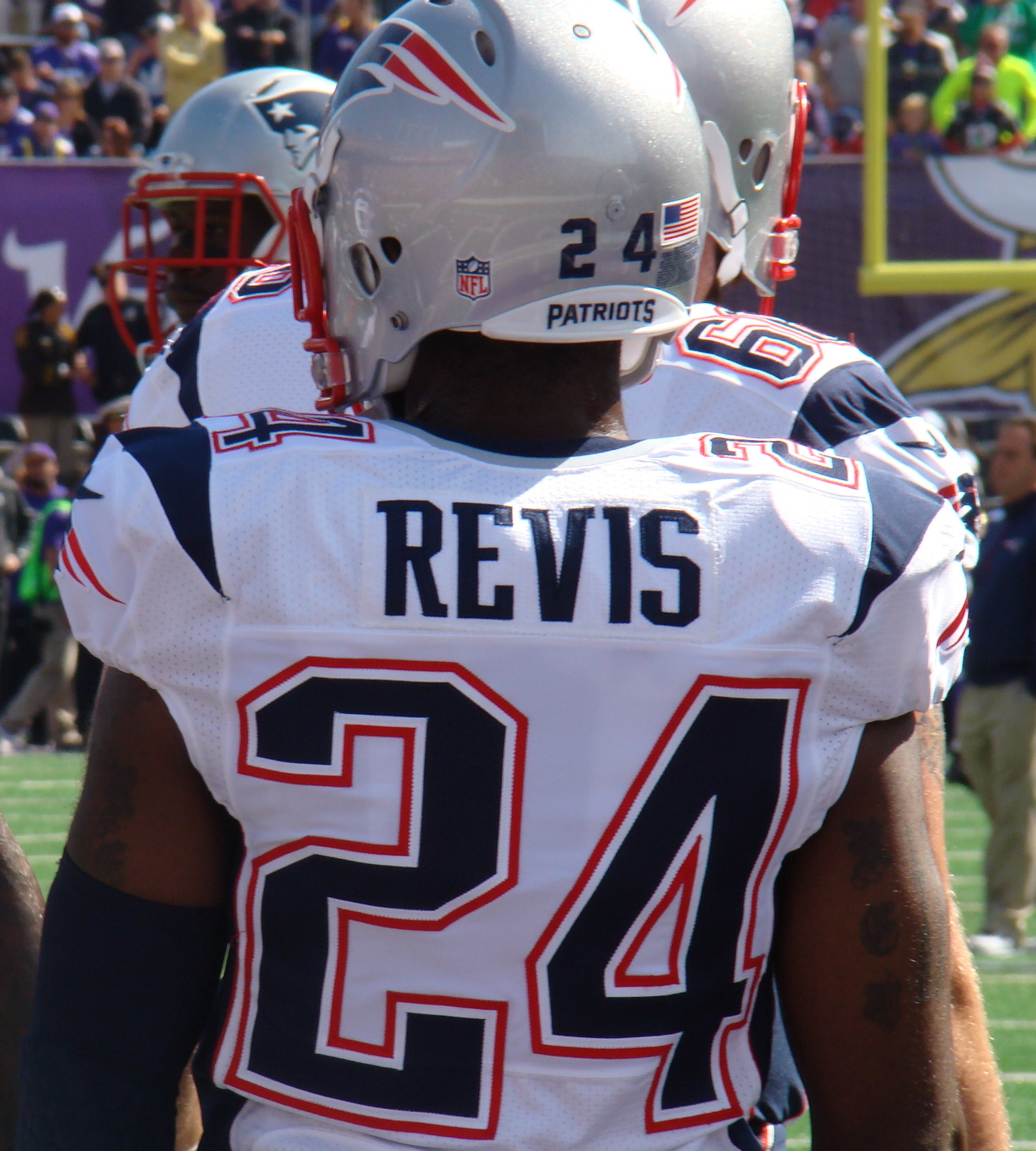 Revis in September 2014.